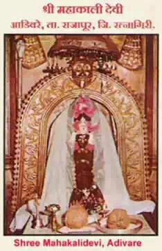 Old photo of Shri Mahakali Devi